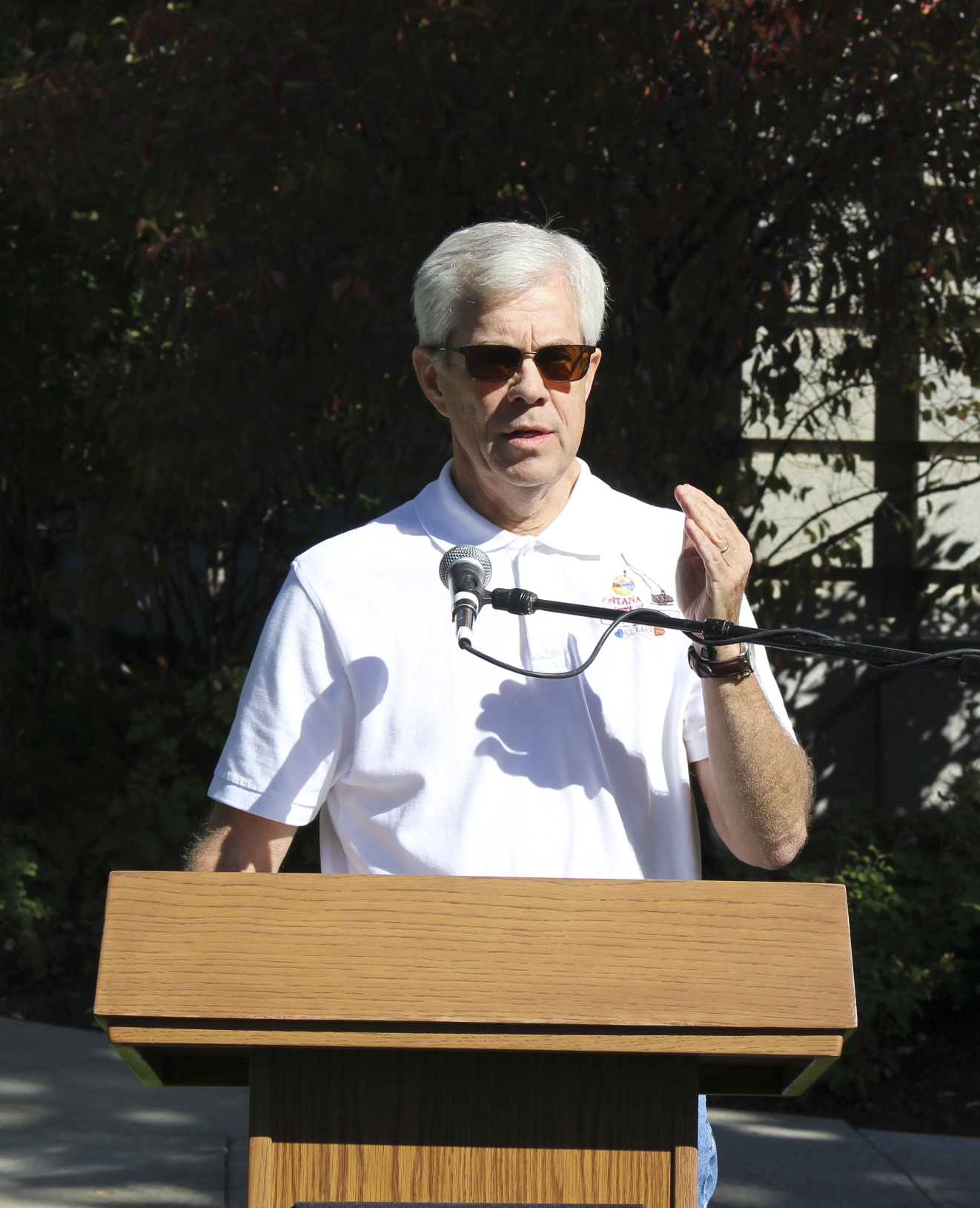 MT Department of Labor & Industry Follow Mike Cooney